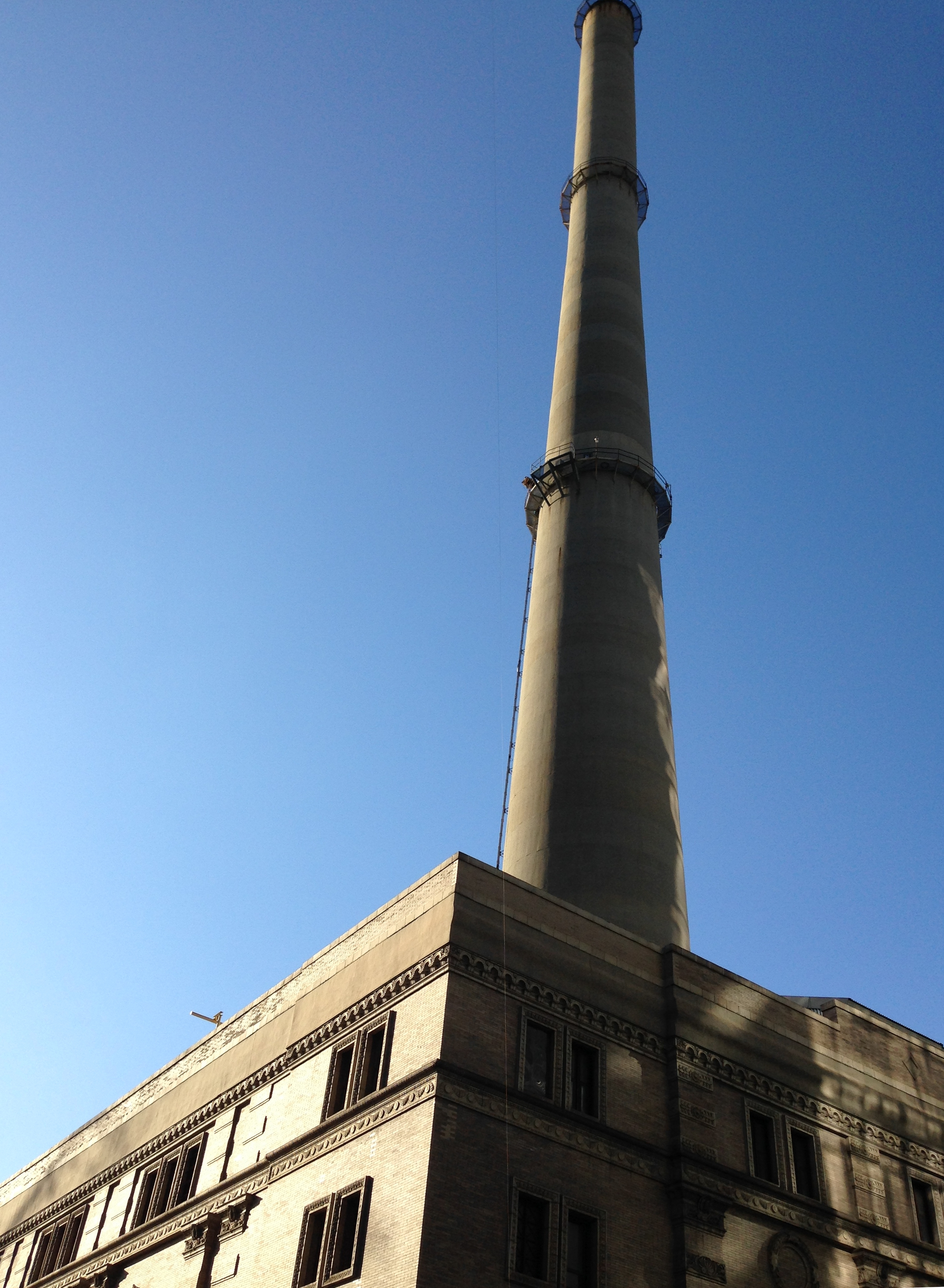 Interborough Rapid Transit (IRT) Powerhouse at the corner of 58th Street and 11th Avenue in Midtown Manhattan.